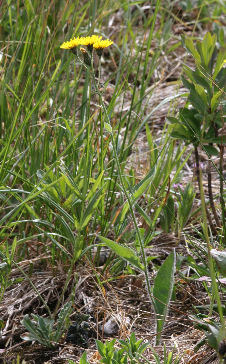 Flowering Hieracium wimmeri (H. epimedium agg., H. bifidum – juranum) in Velká Kotelní jáma glacial cirque, Krkonoše Mountains, Czech Republic.